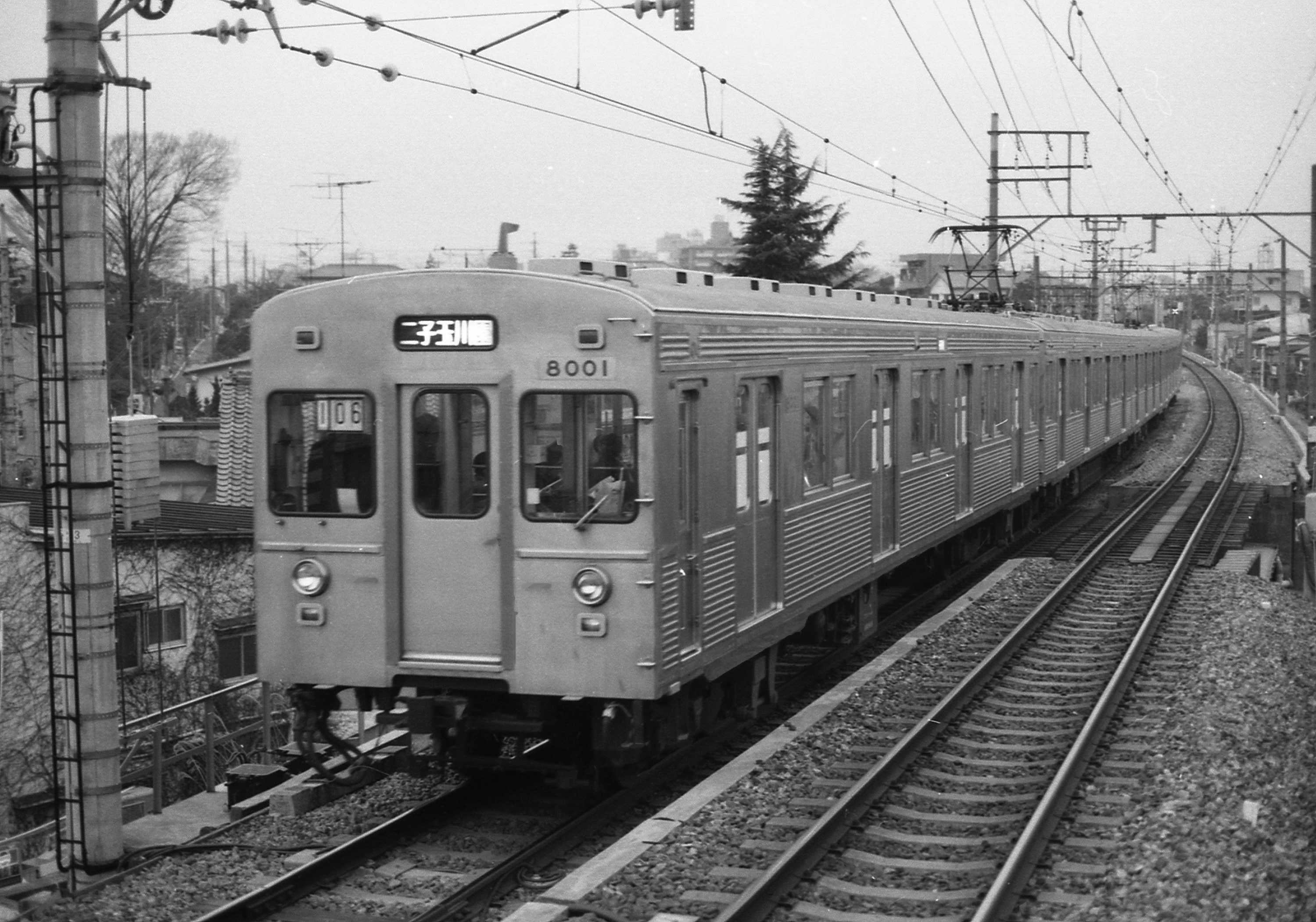 An Oimachi Line train with 8000 series to Futako tamagawa en leaving Midorigaoka station